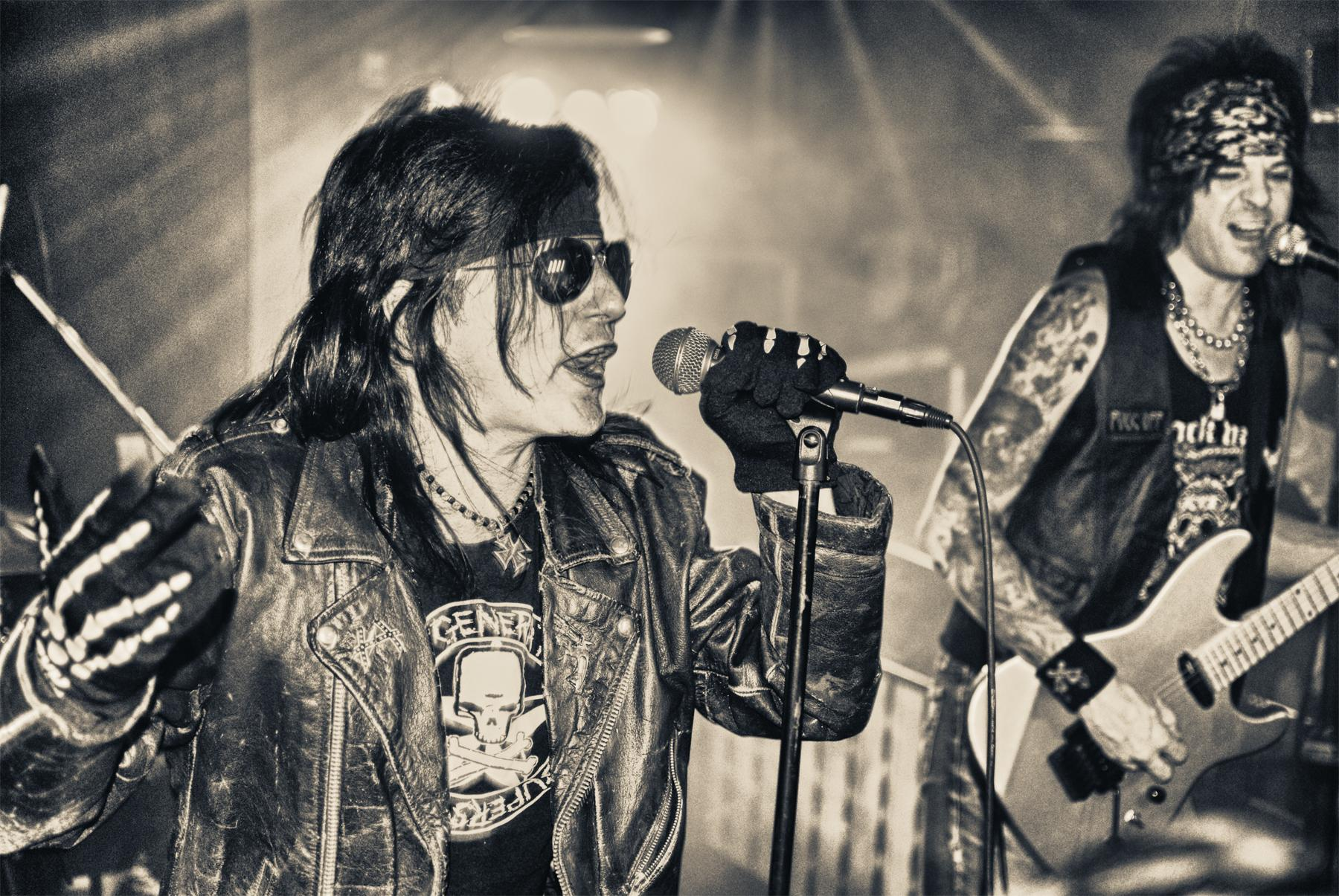 Phil Lewis of L.A. Guns singing "The Cube" on September 24, 2010 Emiliàn e rumagnòl: Phil Lewis di L.A. Guns al canta a "The Cube" al 24 ad Setémbar dal 2010